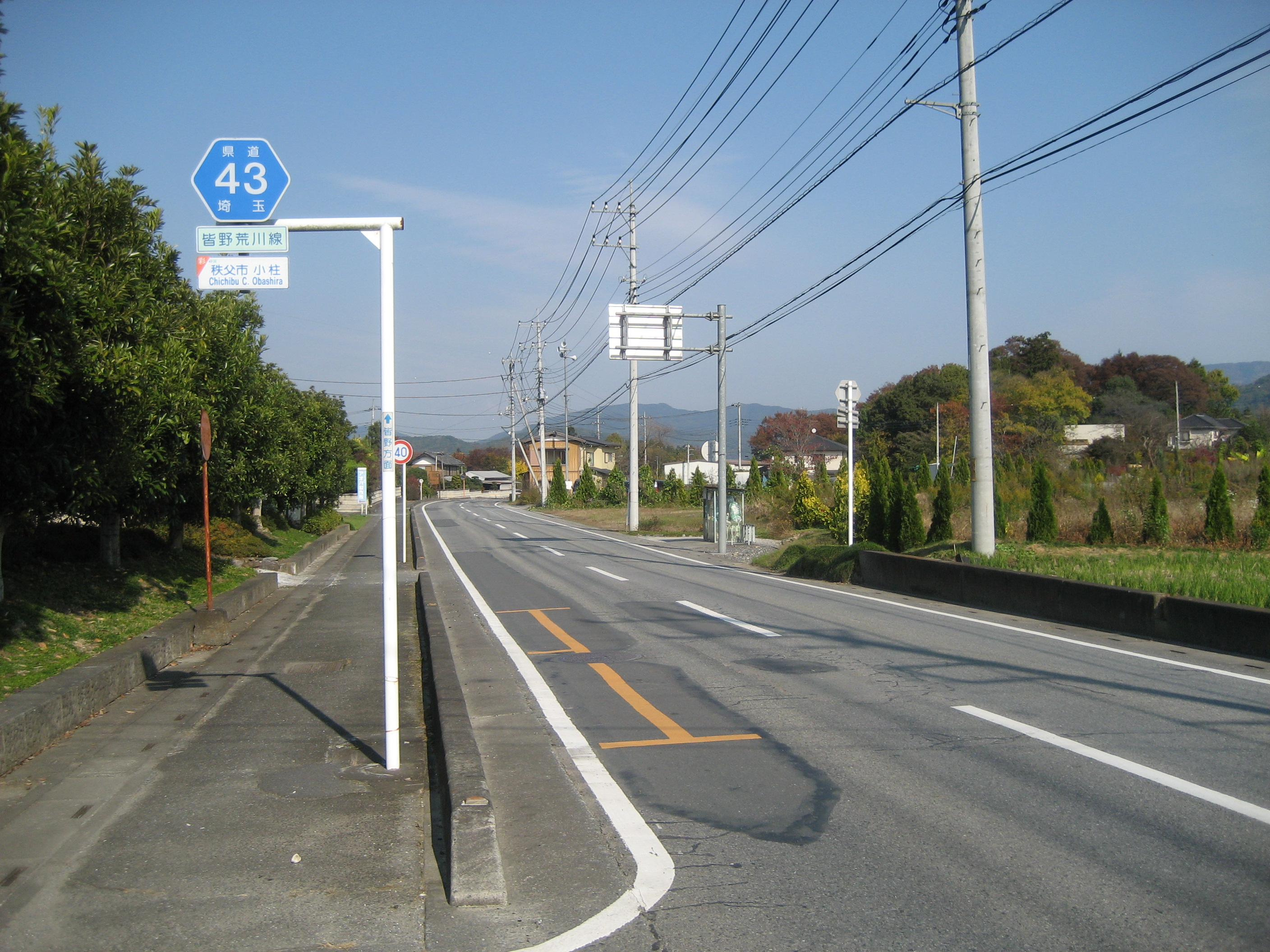 Saitama Prefectural Road Route 43 in Chichibu City